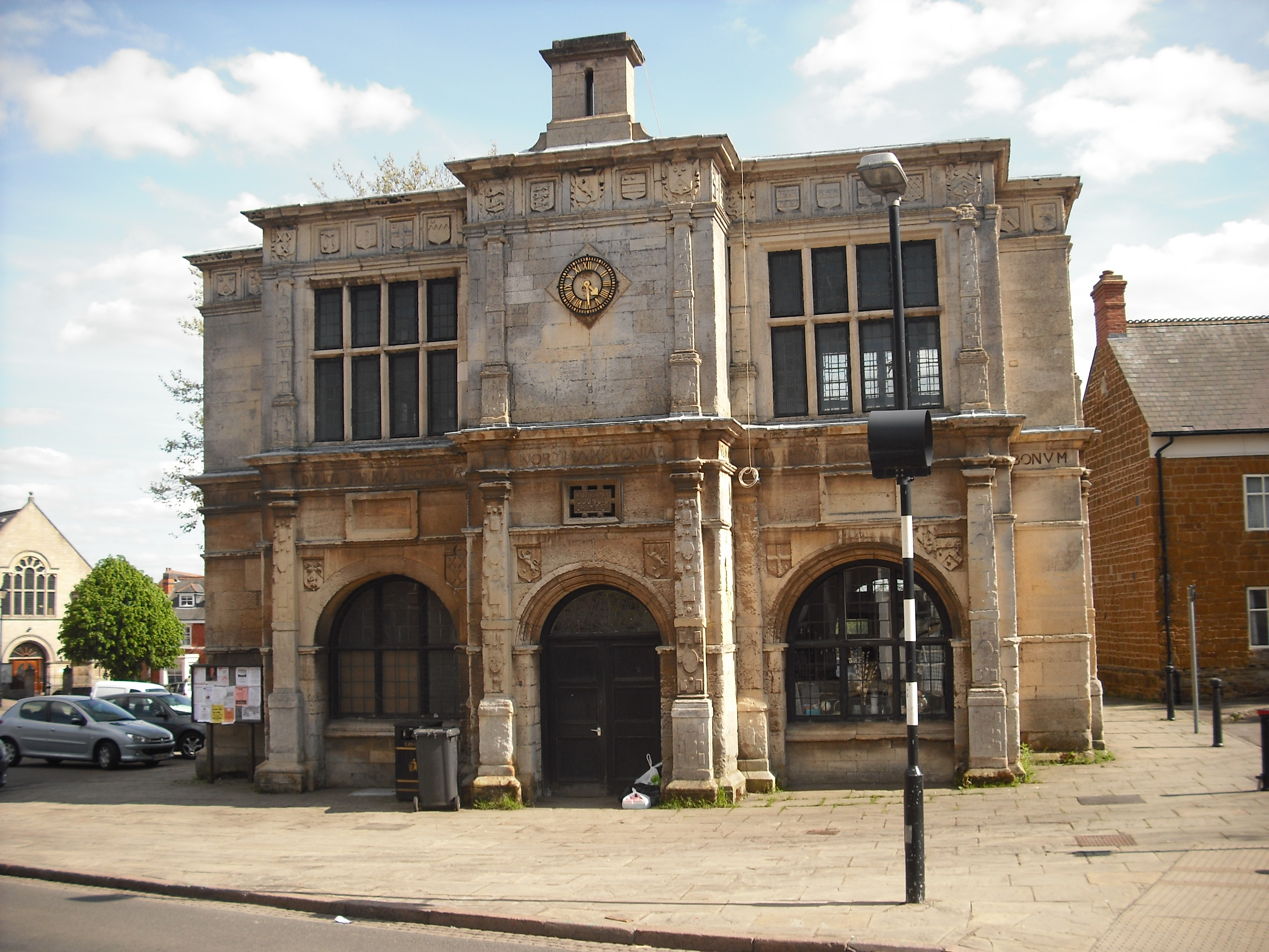 The Market House, Rothwell, Northamptonshire